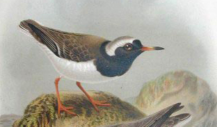 Shore plover, Thinornis novaeseelandiae. The shore plover is an endangered New Zealand bird with a black face, red eye, red legs and a black and red bill.